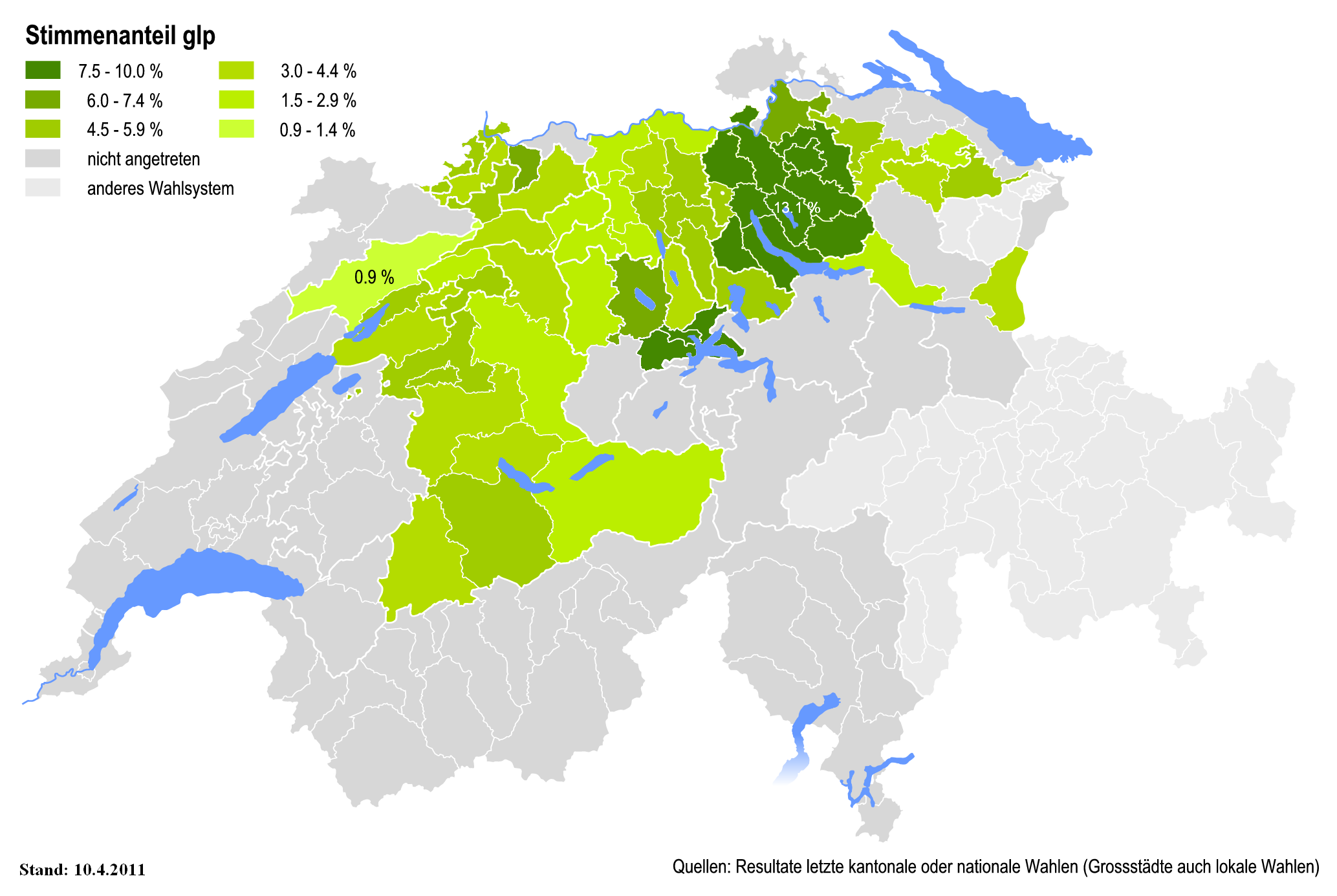 Geographical overview on the votes share of the Green Liberal Party of Switzerland in the districts.